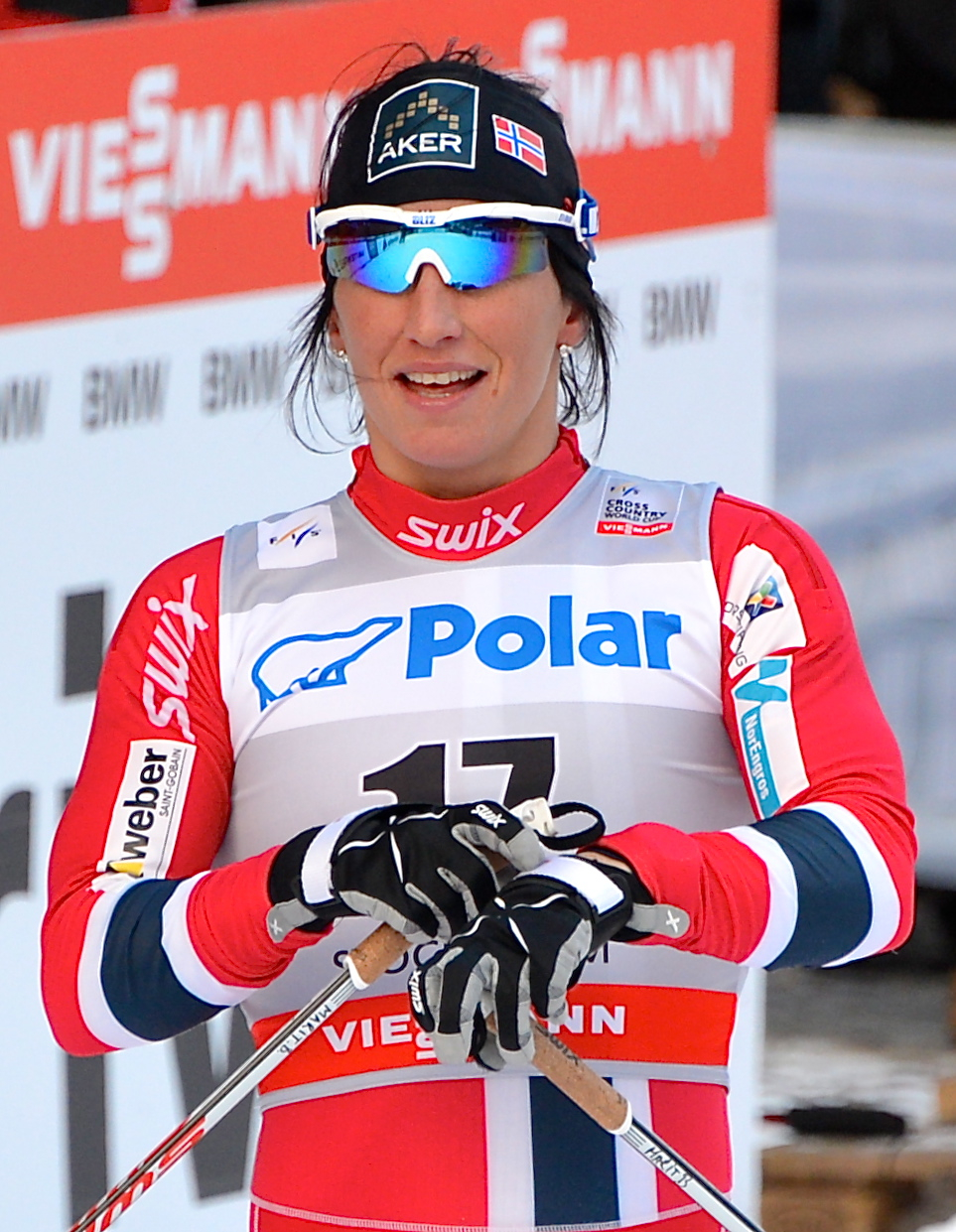 Marit Bjørgen at the Royal Palace Sprint, part of the FIS World Cup 2012/2013, in Stockholm on March 20, 2013. Marit Bjørgen came second in the race.